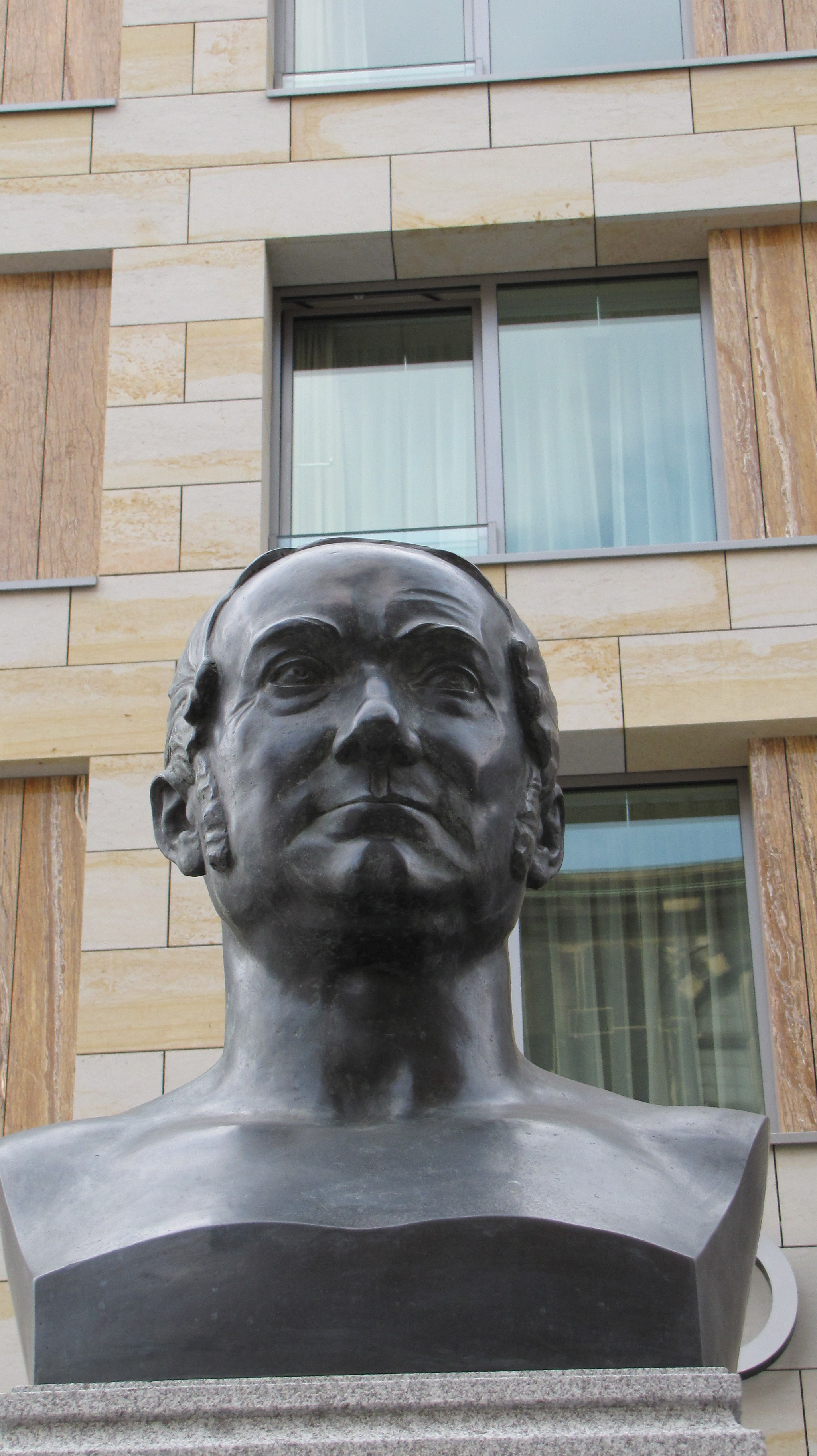 Bust of de;Ernst Julius Otto, Detail of monument in Dresden